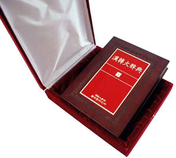 The lagest dictionary as Chinese & Korean, Published : Dankook University